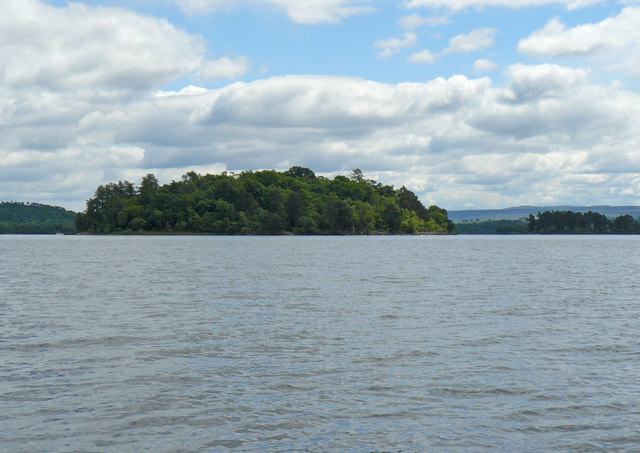 Bucinch Bucinch (translated as Island of Goats) is a small, uninhabited island in Loch Lomond. It is owned by the National Trust and is largely unspoilt, though there are the remains of a jetty on the southeast shore.